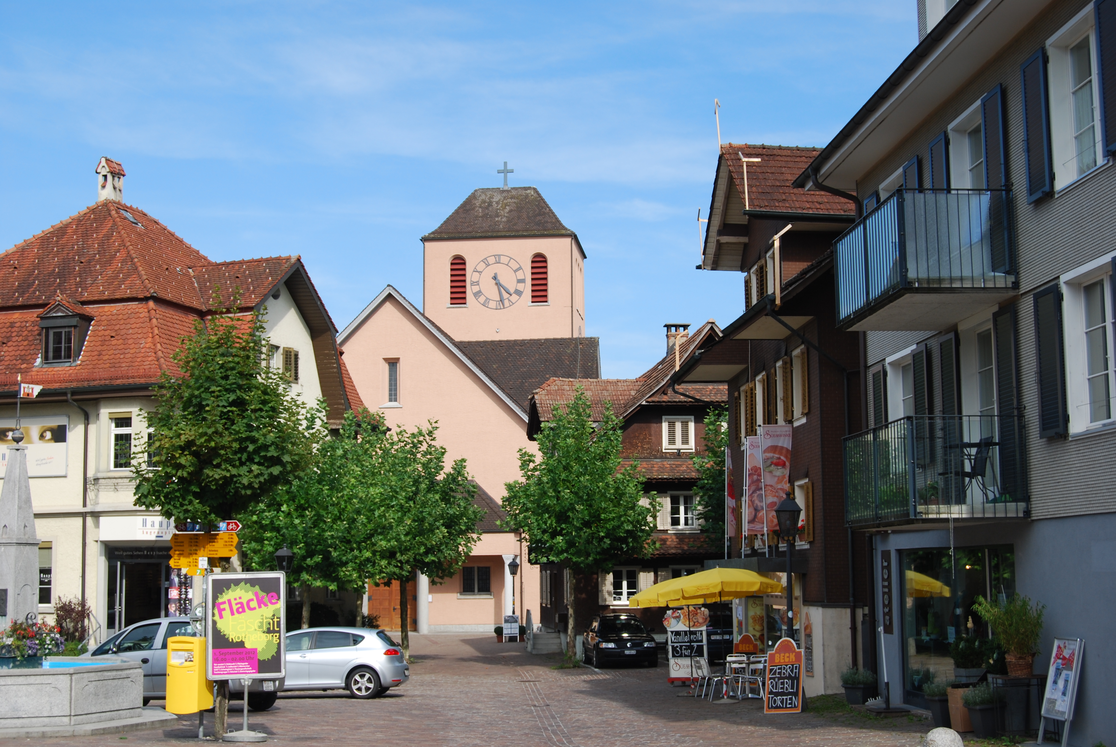 Church of Rothenburg, canton of Lucerne, Switzerland